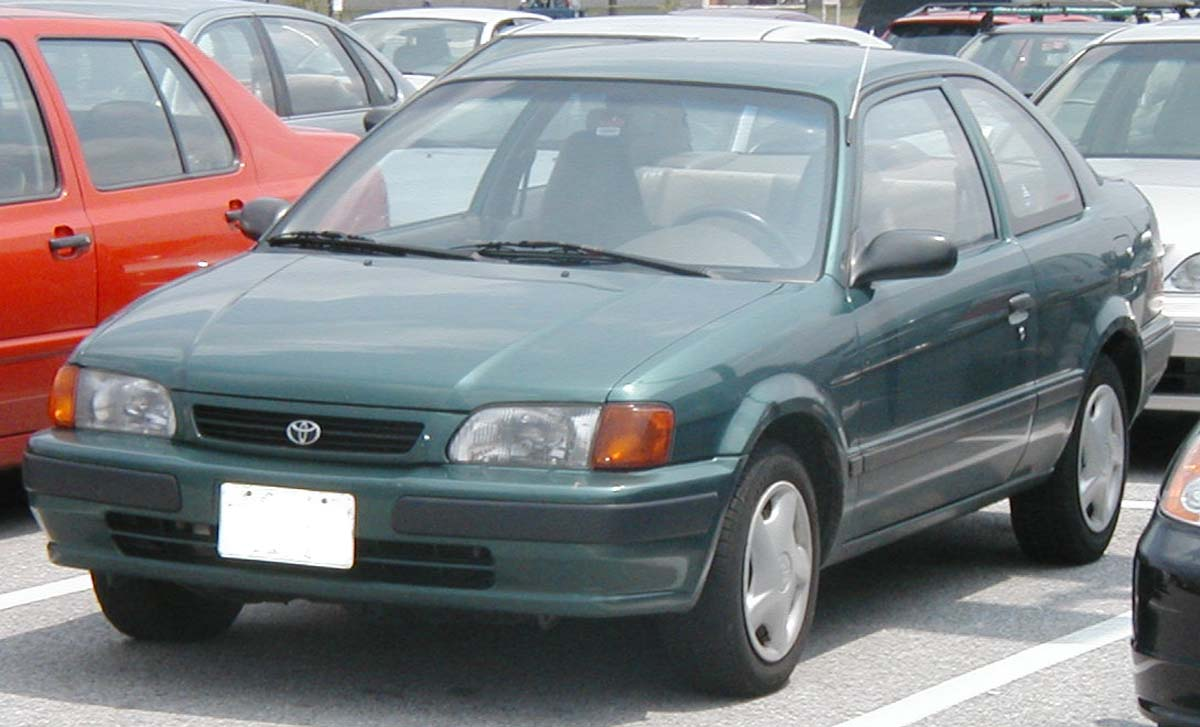 1995-1999 Toyota Tercel coupe photographed in USA.